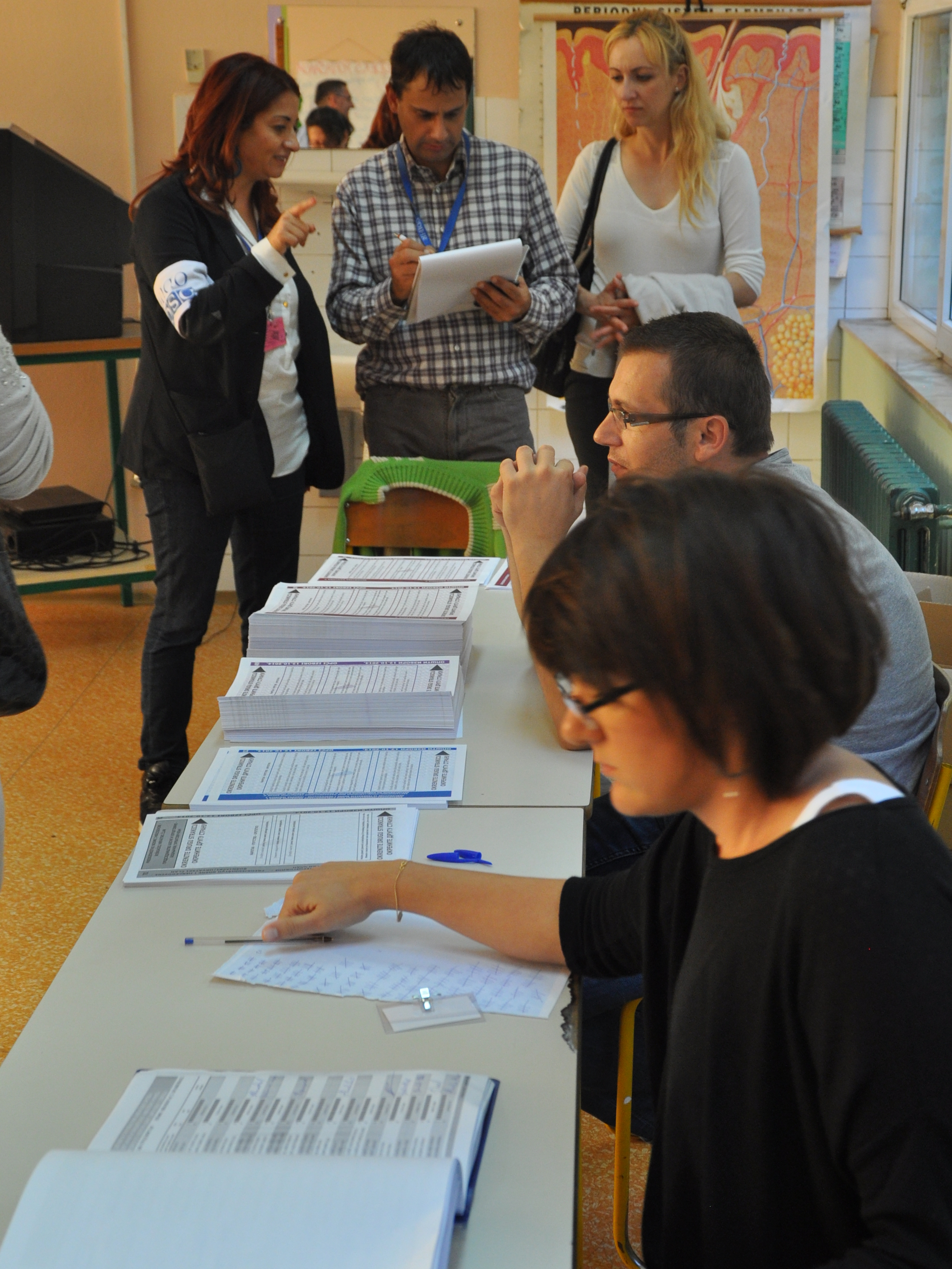 Marietta Tidei, Head of the OSCE Parliamentary Assembly's Delegation of observers, at a polling station in Mostar, 12 Oct. 2014